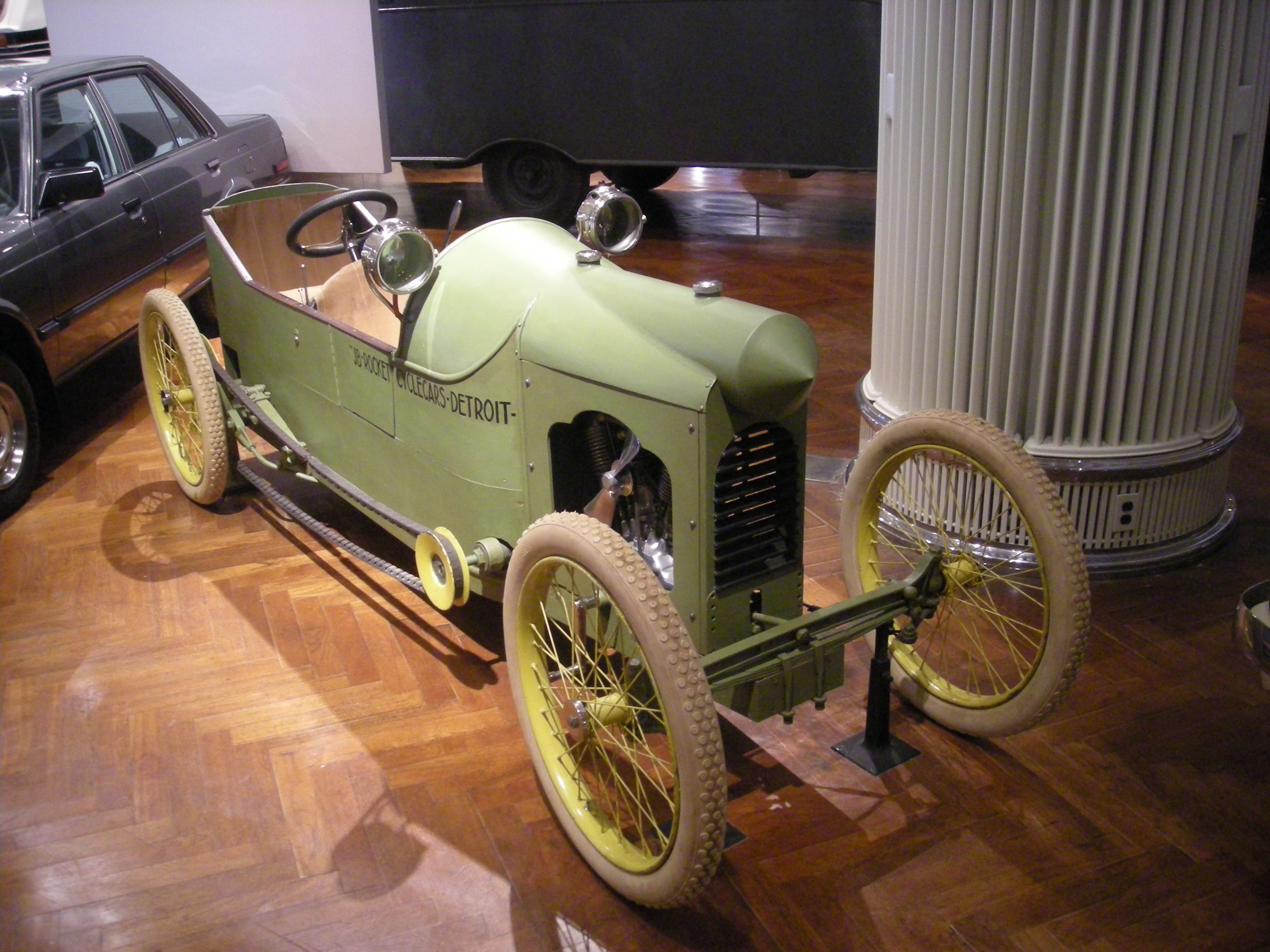 A 1913 Scripps-Booth Rocket cyclecar prototype on display at the Henry Ford Museum in Dearborn, Michigan (United States).